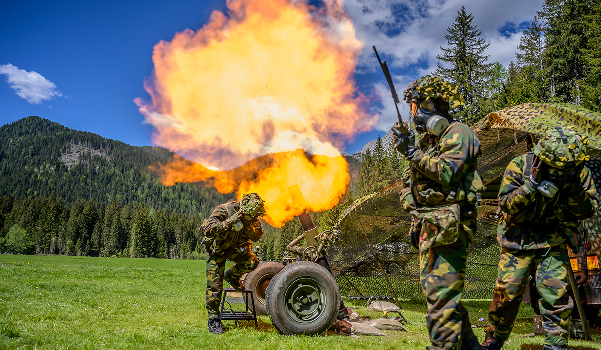 Italian Army - 8th Alpini Regiment Heavy Mortar Platoon in May 2020